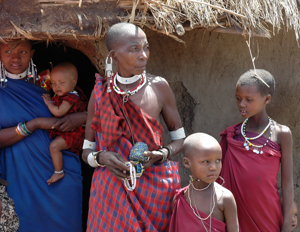 Masai women and children, Tanzania